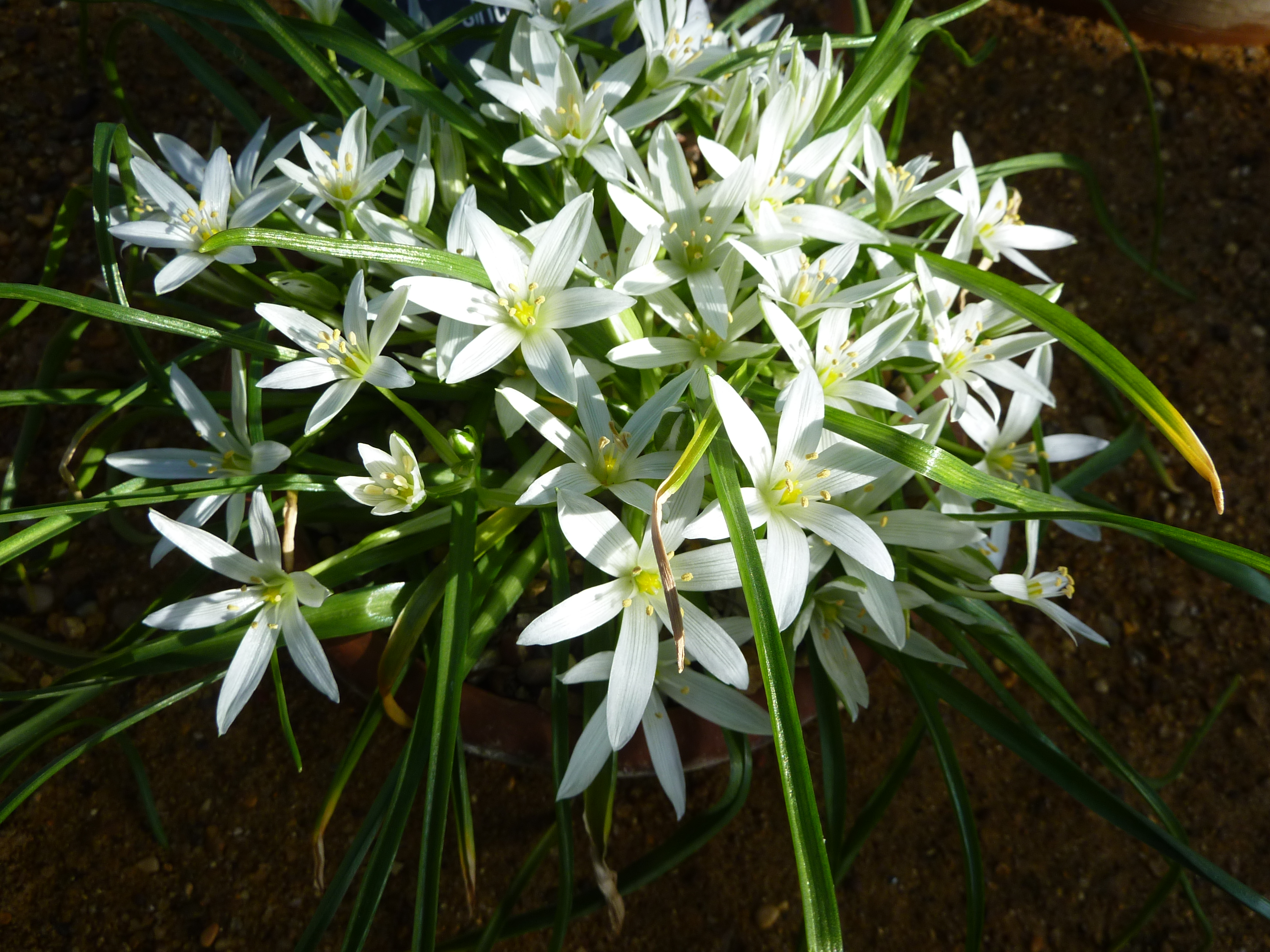 Taken in the Cambridge University Botanic Garden.